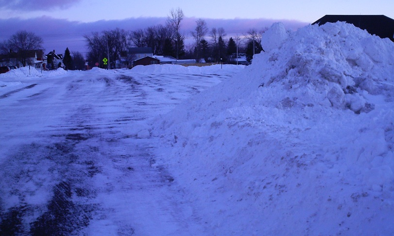 Photo of a snowbank in Ashland, Wisconsin.